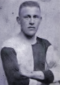 Photograph of Belgium national football team player Robert De Veen